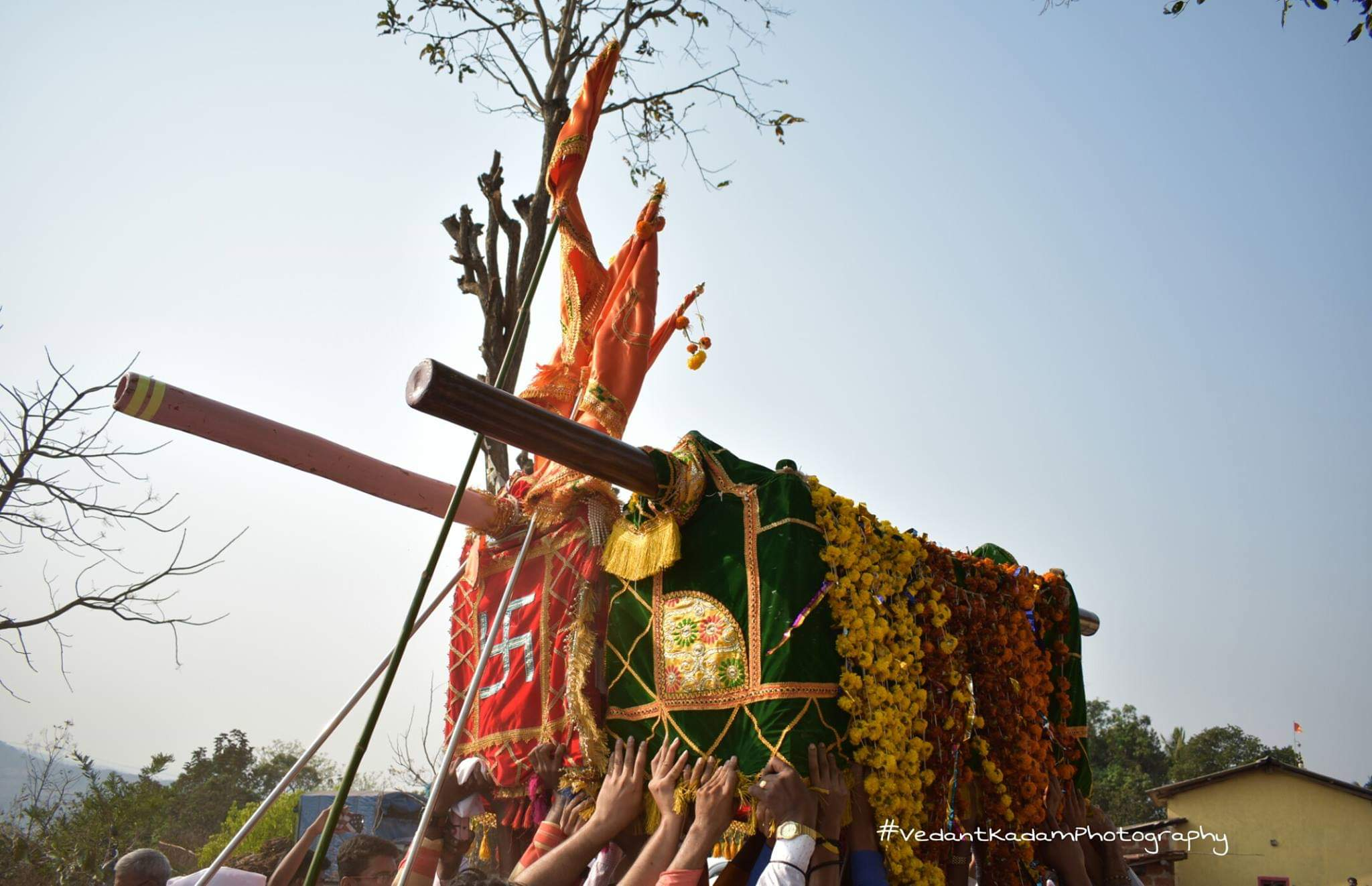 Shimga (holi) festival special